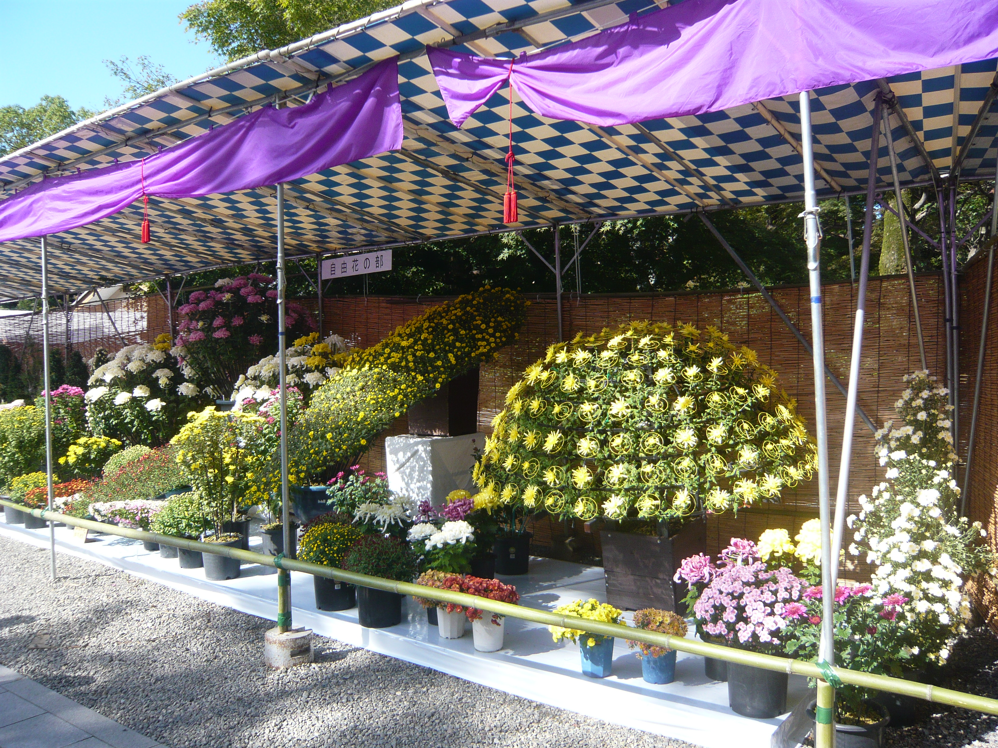 Chrysanthemum Doll and Flower Festival in Gifu, central Japan.